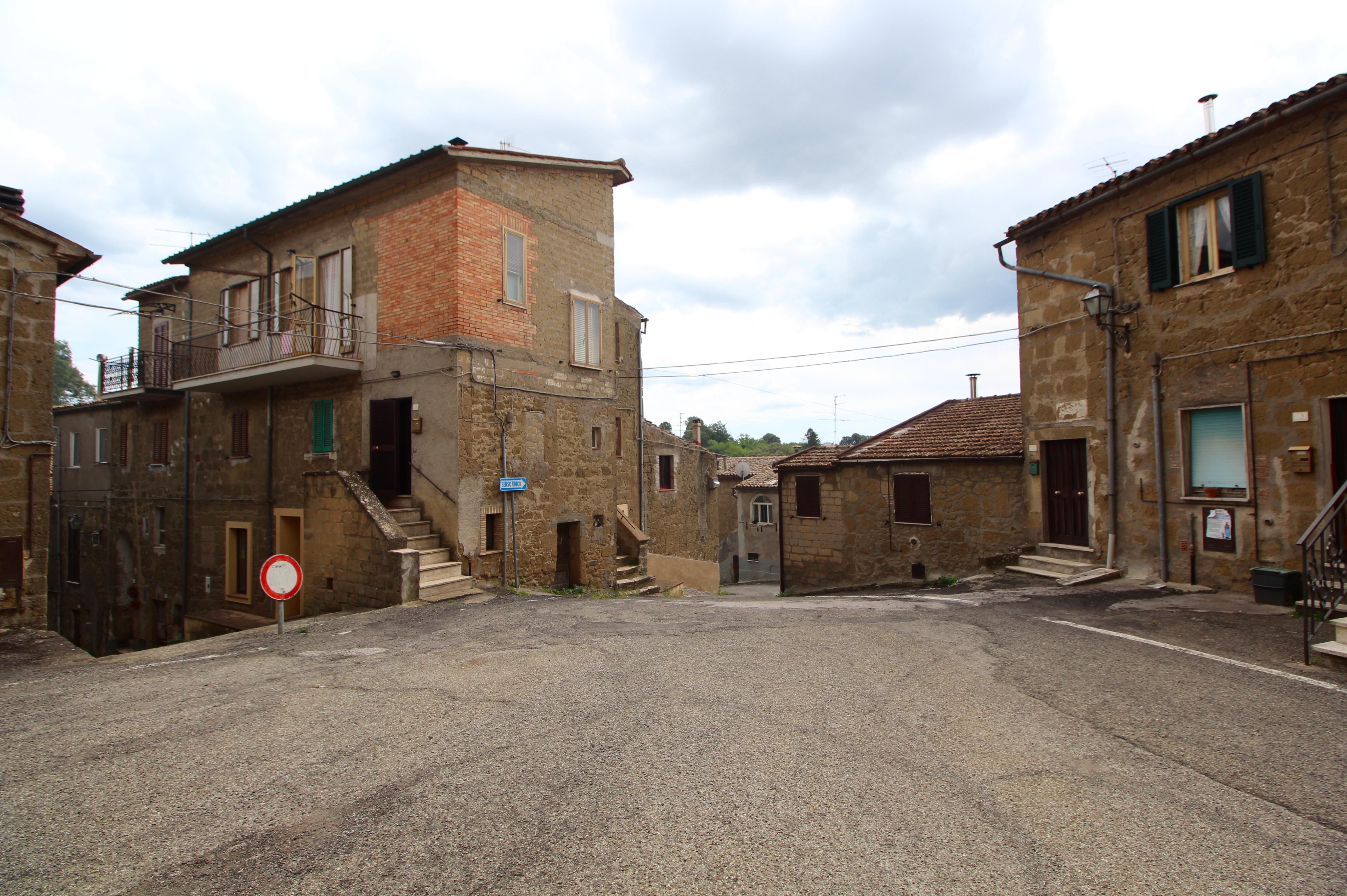 San Quirico, hamlet of Sorano, Province of Grosseto, Tuscany, Italy